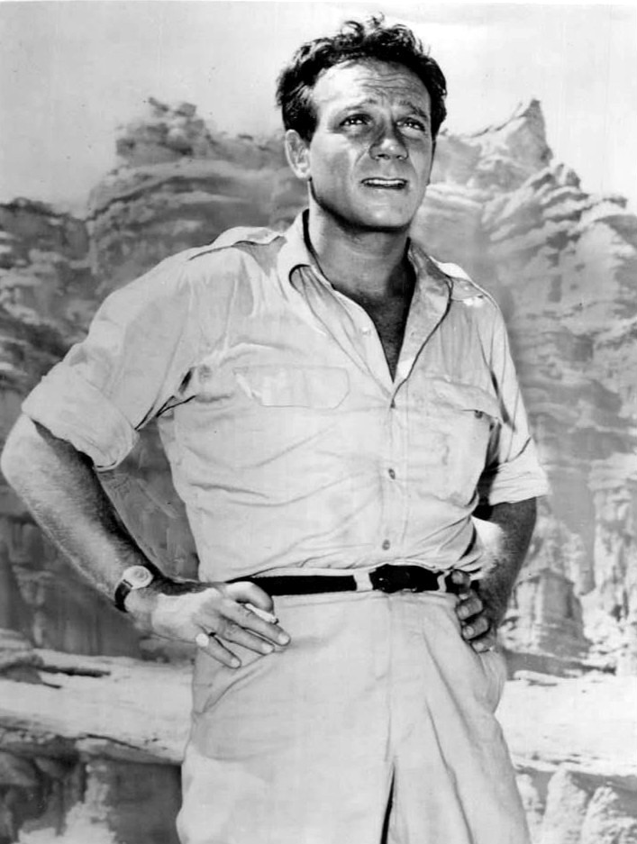 Photo of Dane Clark as Dan Miller from the television program Wire Service.